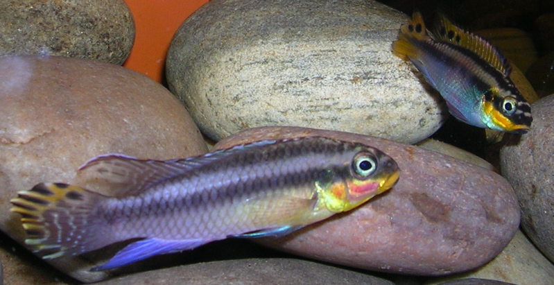 Wild-caught male (left) and female P. taeniatus "Nigeria red" in an aquarium.